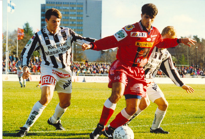 FC Jazz vs. TPS Turku. Veikkausliiga season 1996 at Porin Stadion, Pori, Finland. Luiz Antonio with TPS players.